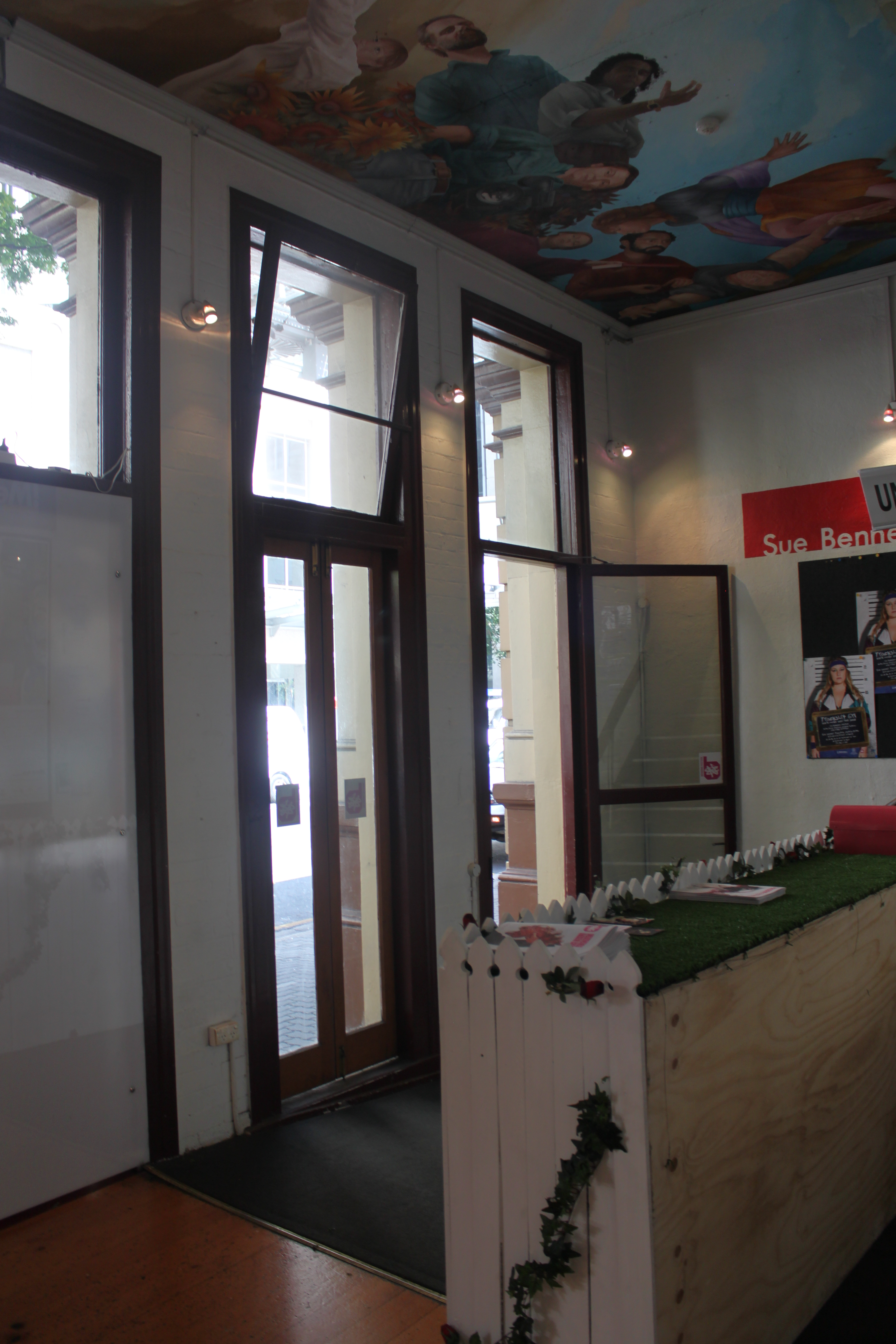 Richard Gailey's work